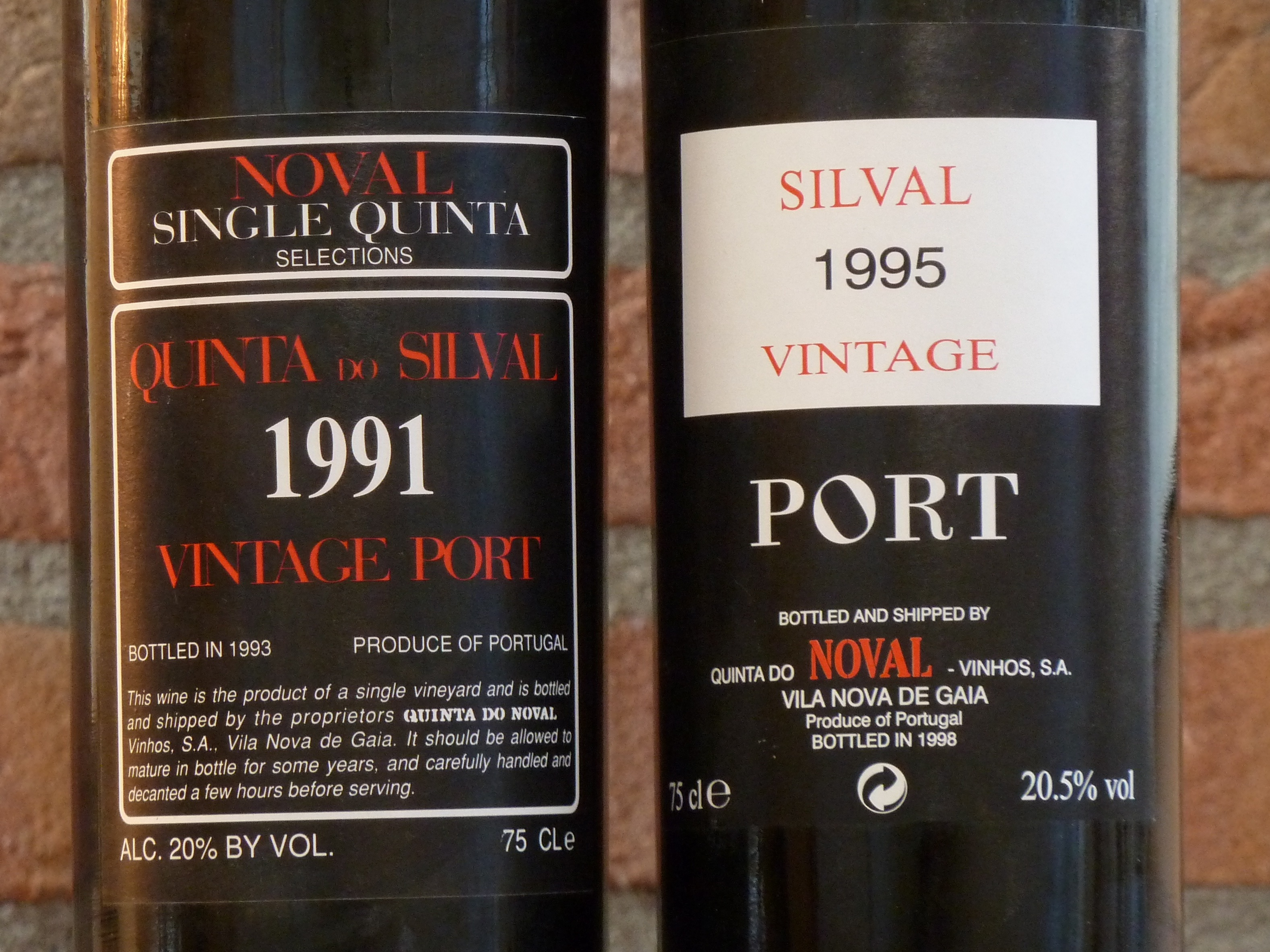 Noval "do Silval" Vintage